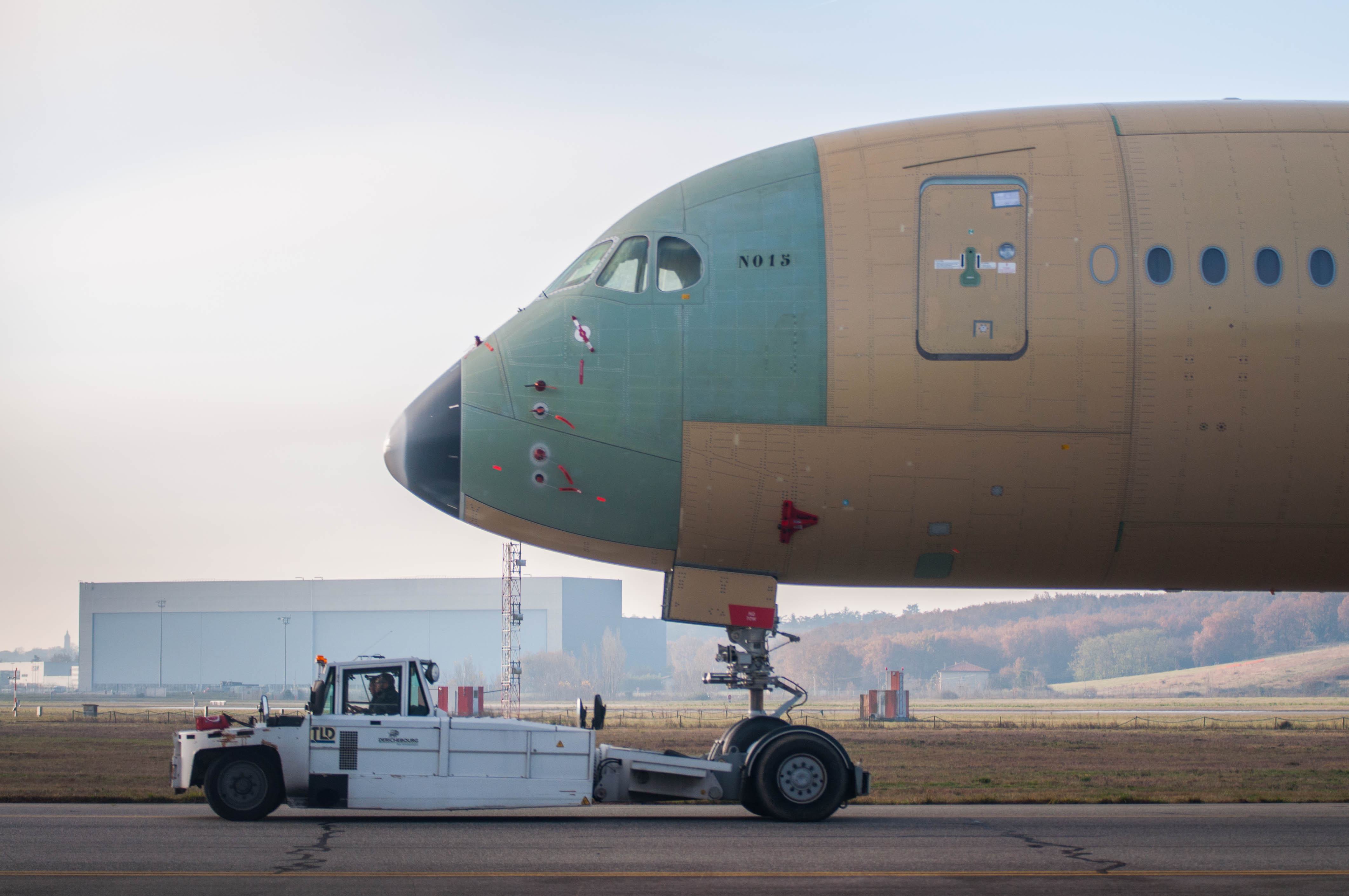 Being towed to Airbus-Lagardère.